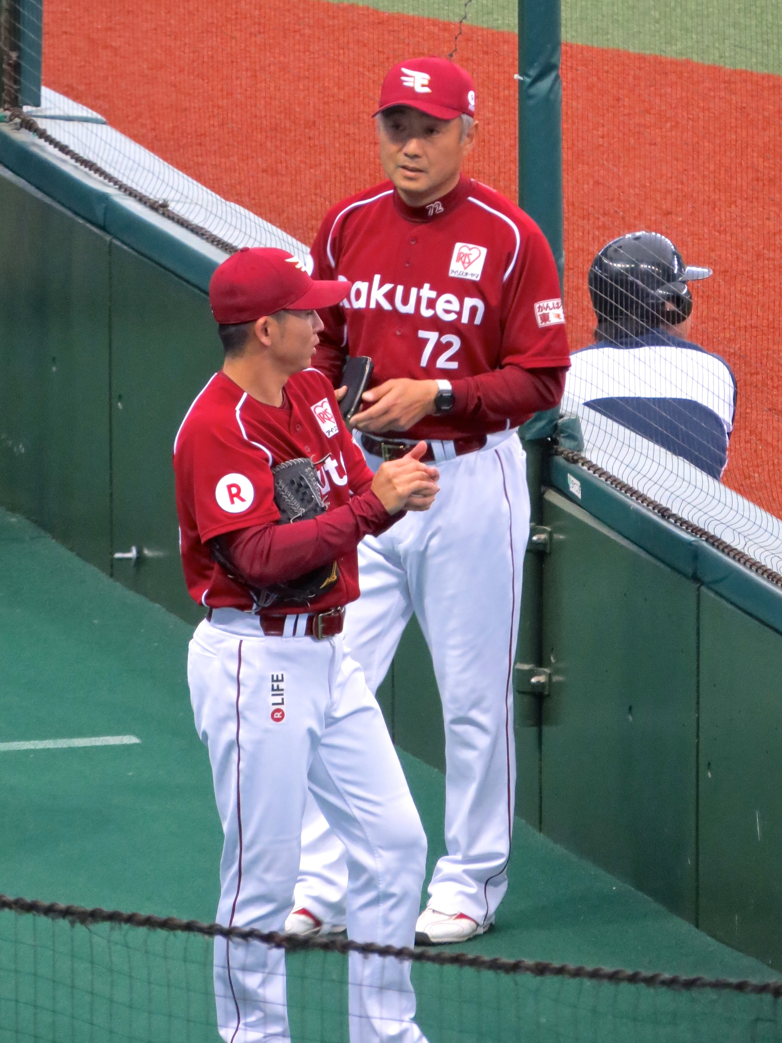 Ryoji Moriyama, coach of the Tohoku Rakuten Golden Eagles, at Seibu Dome